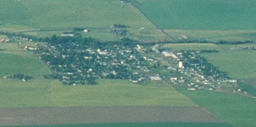 Weston and Athena, Oregon